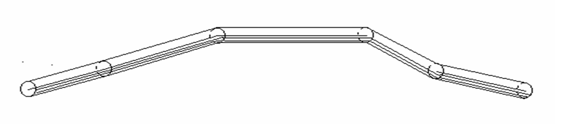 Aircraft trajectory, with begin and end points within a maximal acceptable error margin (the cylinder).